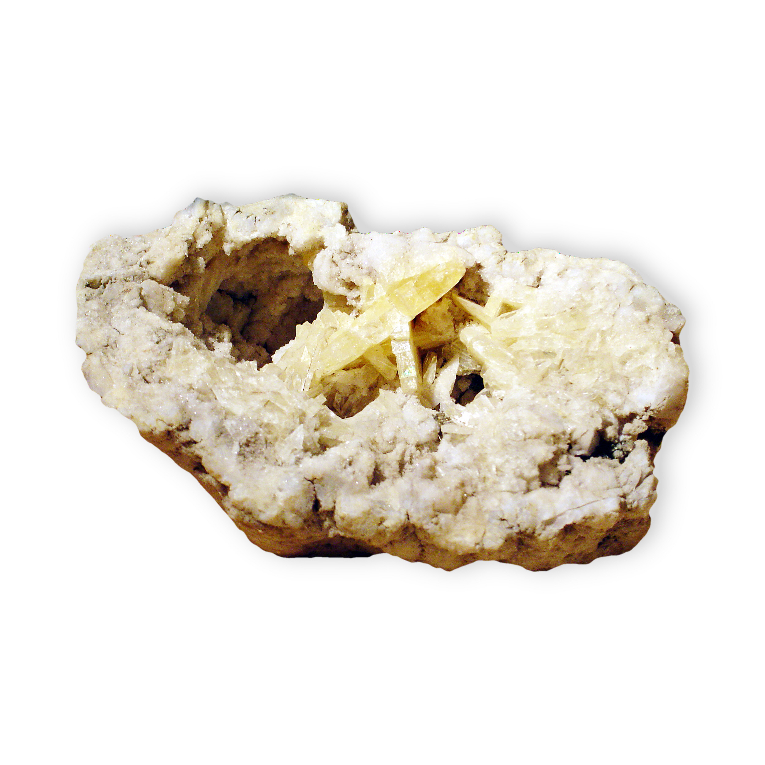 These mineral images are free to use how you wish.